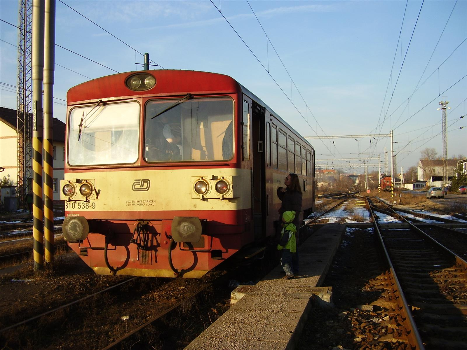 ČD Class 810 at Praha-Smíchov severní nástupiště (north platform)